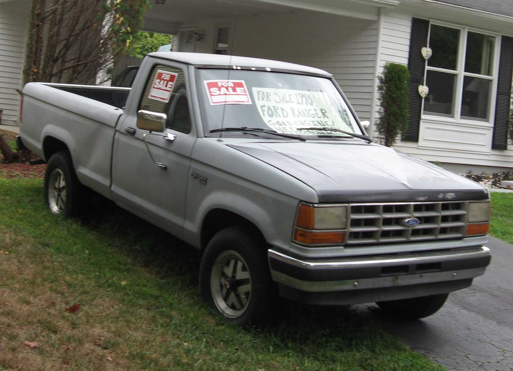 1990 Ford Ranger XLT